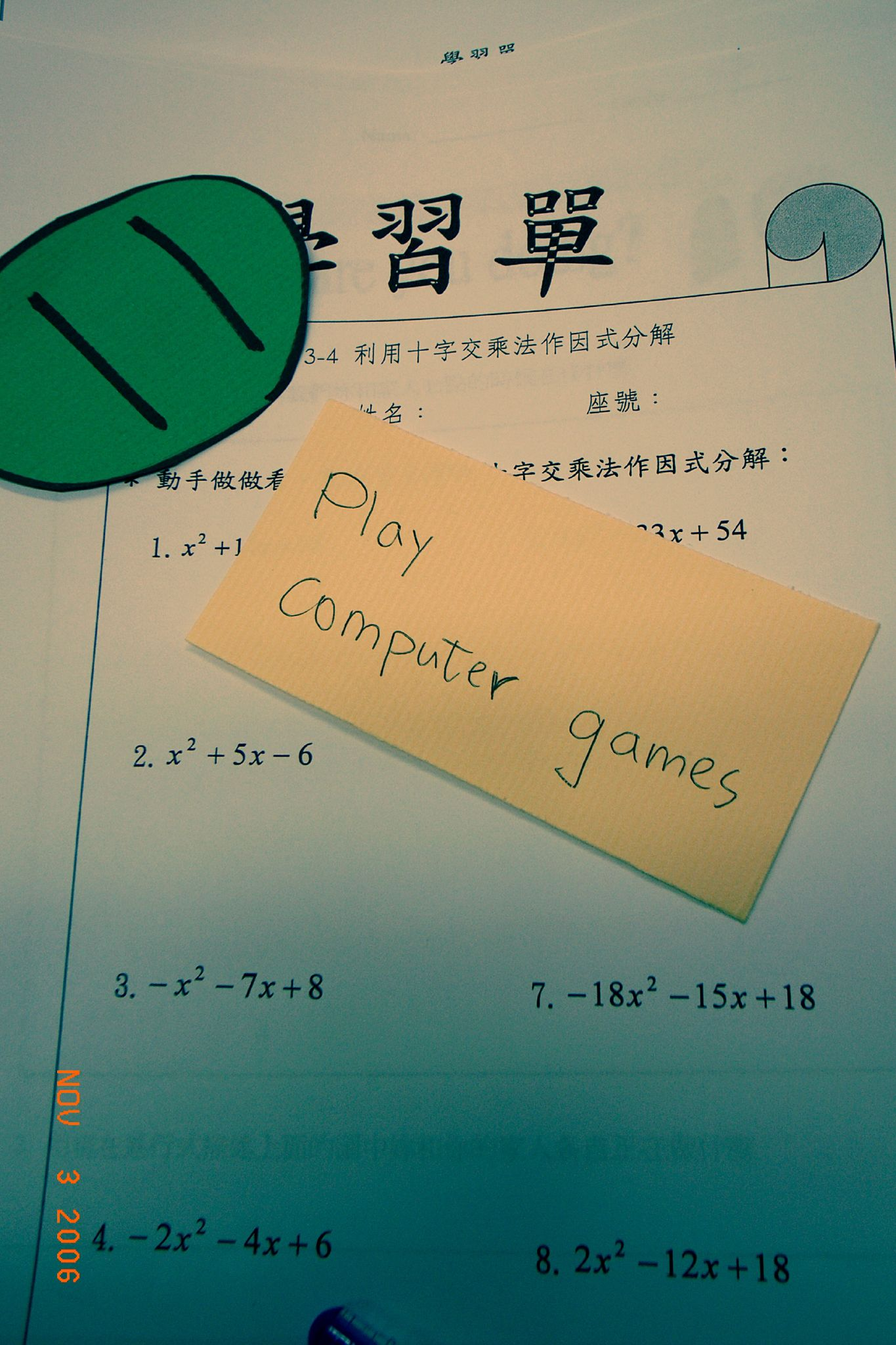 Da Ji Junior High School teacher's teaching materials in Chiayi County, Taiwan.